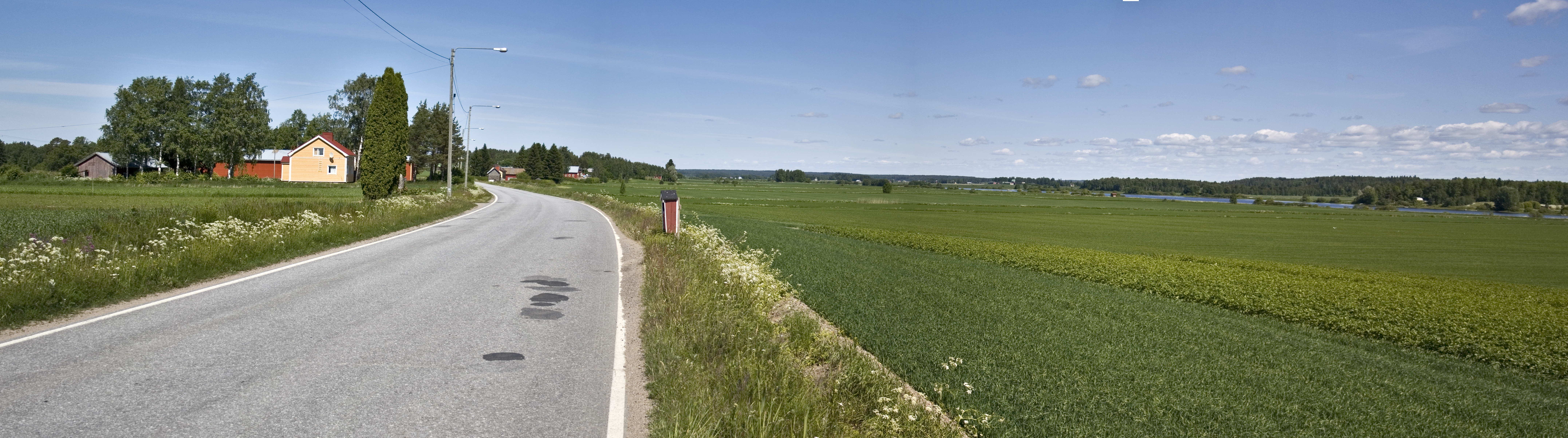 View of Karhiniemi in Huittinen, Finland